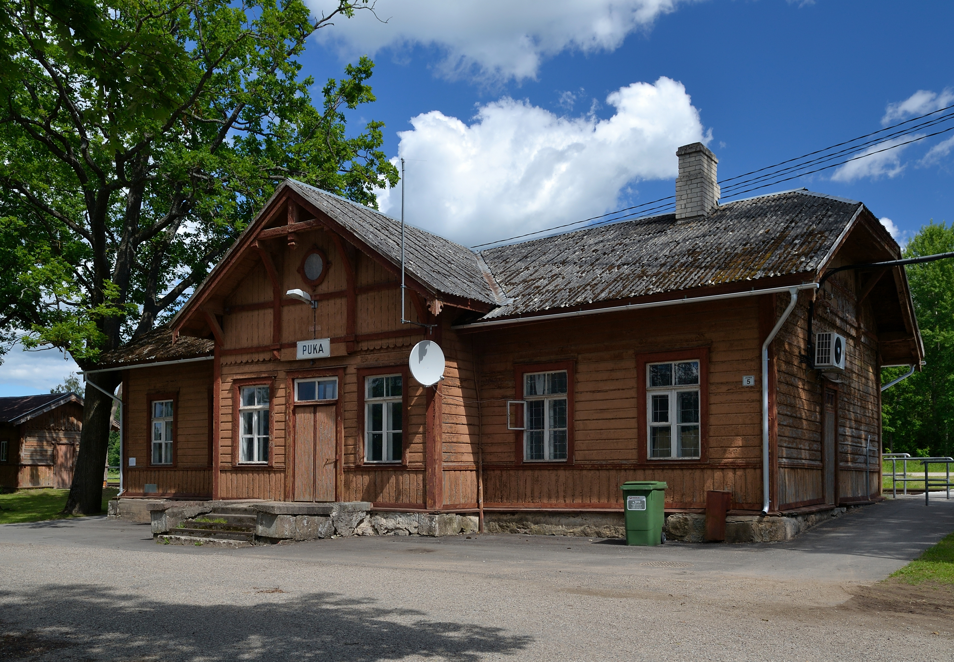 Puka station building